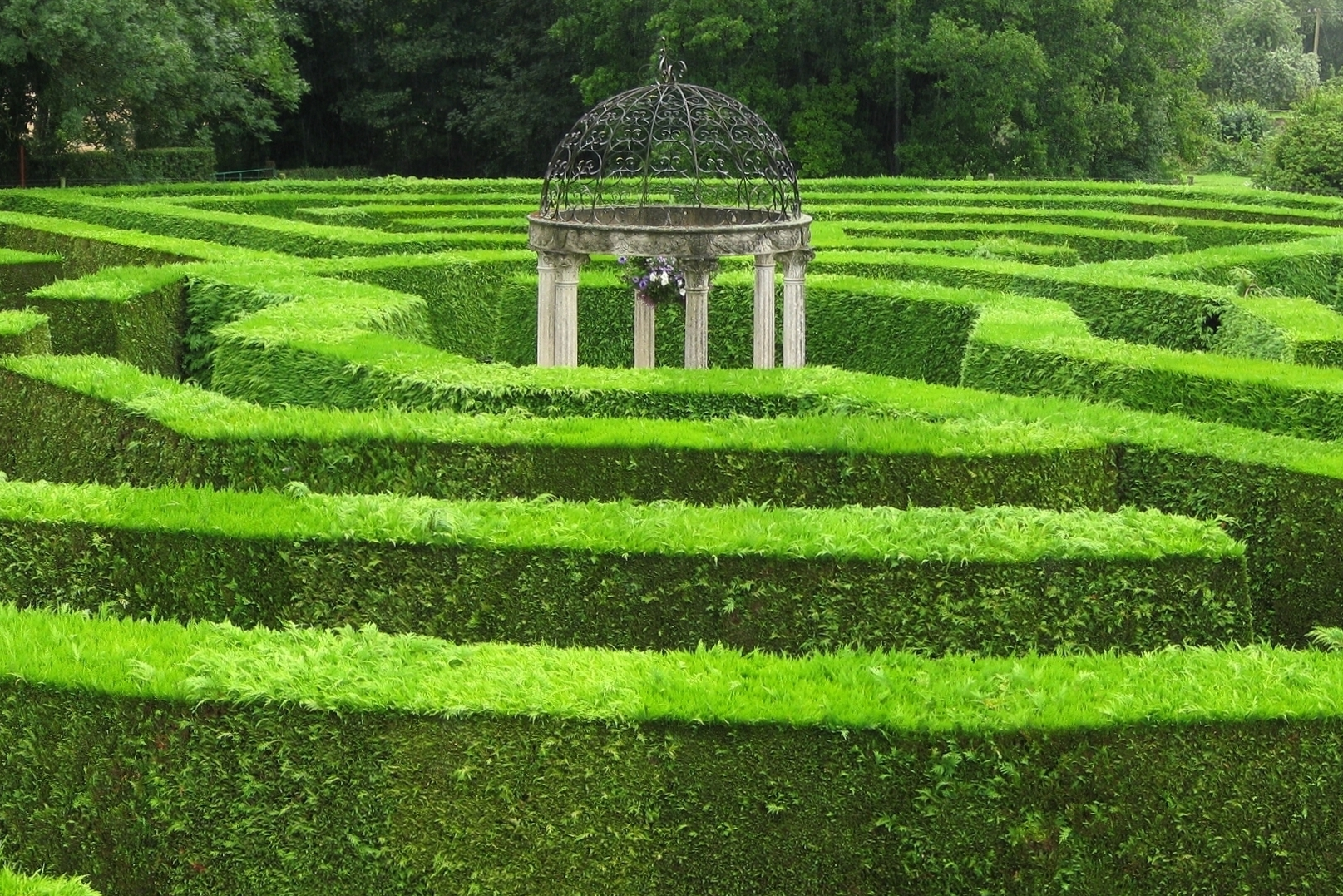 The Jubilee Maze, an octagonal hedge maze near Symonds Yat in the Forest of Dean.